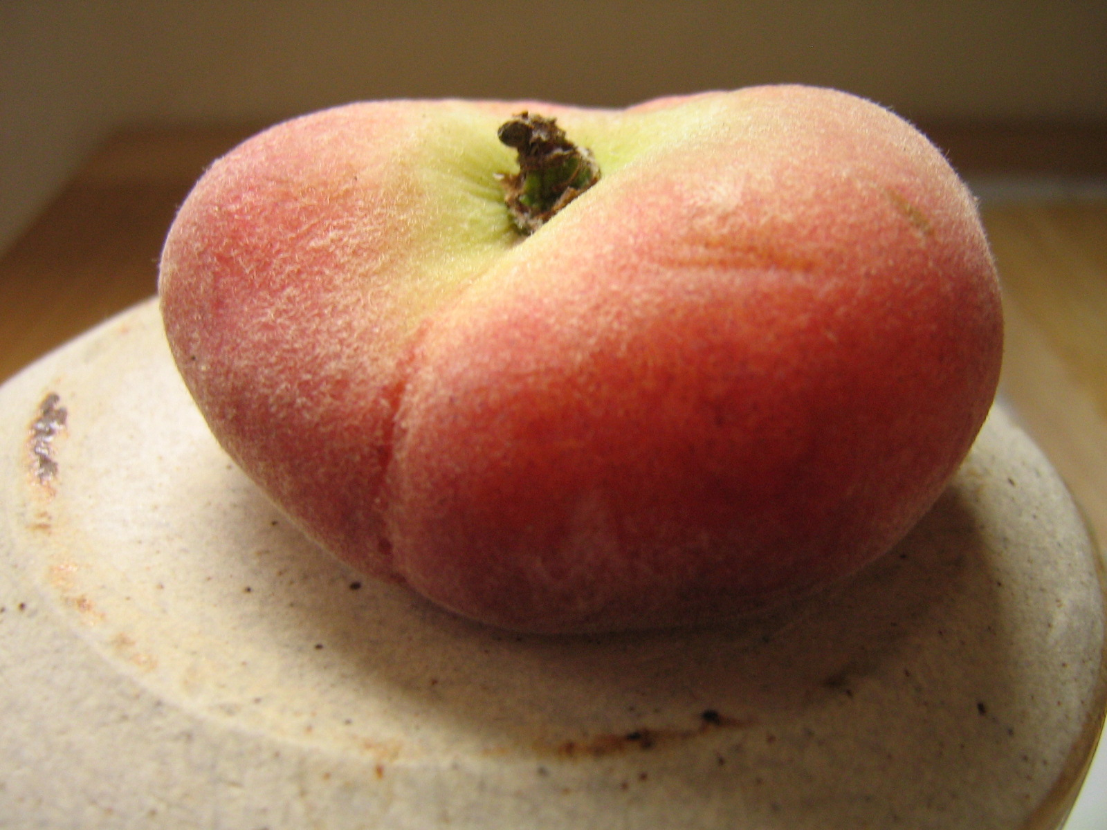 Flat peach, also called Pan Tao